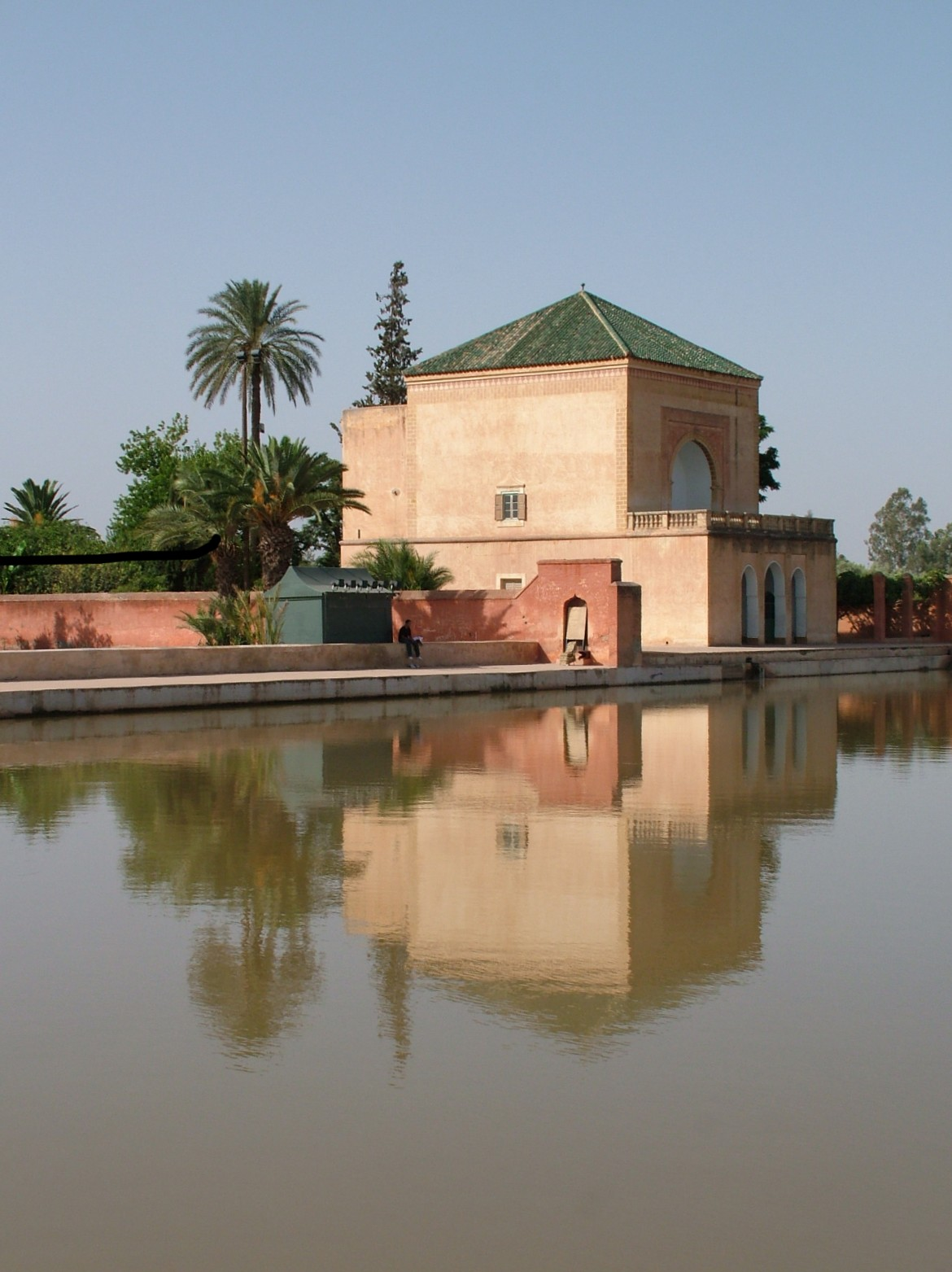 Ménara Garden, Marrakech, Morocco